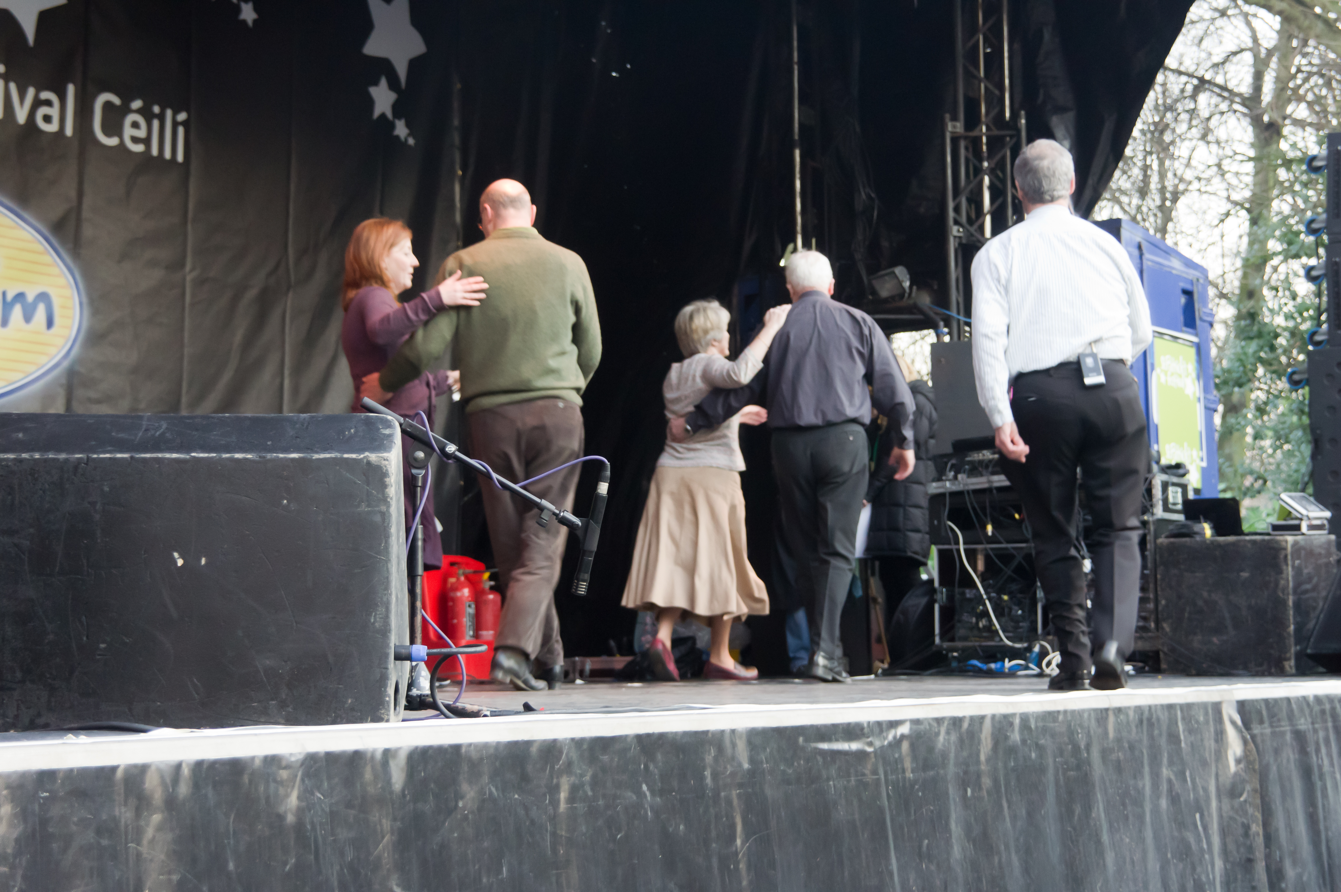 St. Patrick’s Festival Céilí Unfortunately my application for access to photograph this year's St. Patrick's Festival was rejected and as a result I found it very difficult to photograph the Ceili which took place today at the corner of St. Stephen's Green. The main problem was my view was blocked most of the time. Anyway, I do hope that the photographs that I have made available captured some of the the atmosphere. The event started at 5.00pm and it offered an interesting and fun filled family friendly way to spend an afternoon dancing your heart away. Expert callers lead the crowd (the majority appeared to be non-Irish) through dances such as the Siege of Ennis, the Walls of Limerick. Irish Dancing star Dearbhla Lennon of Riverdance fame was joined by dancers and musicians from Siamsa Tíre, Irelands National Folk Theatre and Arts Centre, Céilí caller Jerry O’Reilly, dancers from the internationally acclaimed Brookes Academy, and award-winning fiddle and concertina player Niamh Ní Charra and friends. I used a Sony NEX-5 and while I really like the camera not having a viewfinder makes it very difficult to check focus.